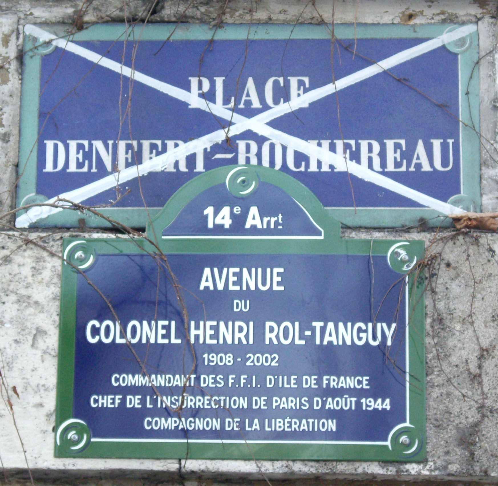 Avenue du Colonel-Henri-Rol-Tanguy, Paris 14e. Inaugurated in 2004.